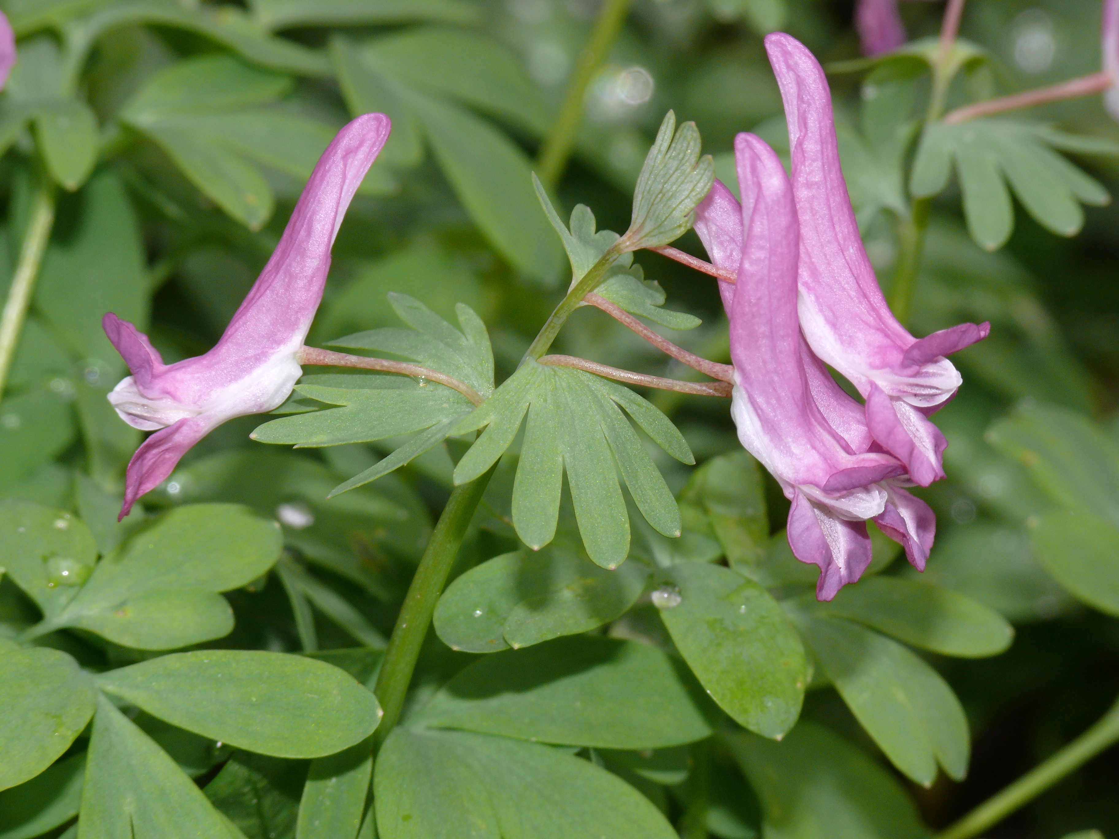 Corydalis solida, Gefingerter Lerchensporn